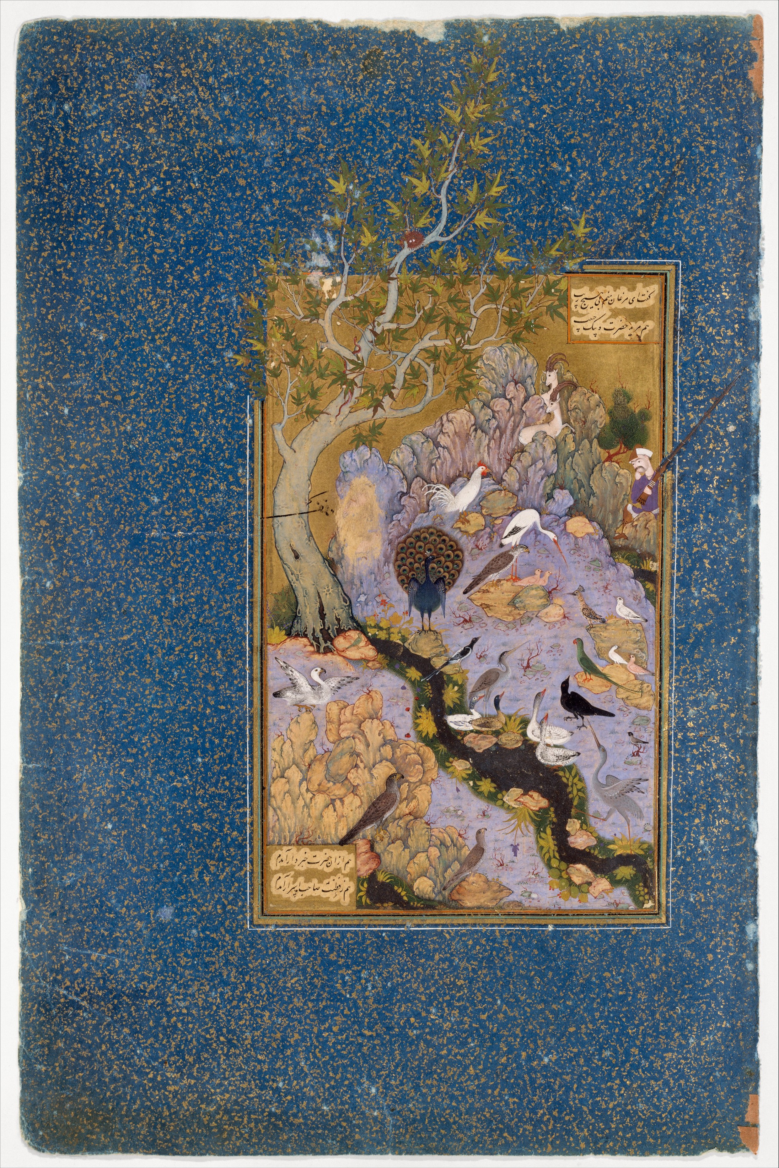 Folio from an illustrated manuscript; Codices